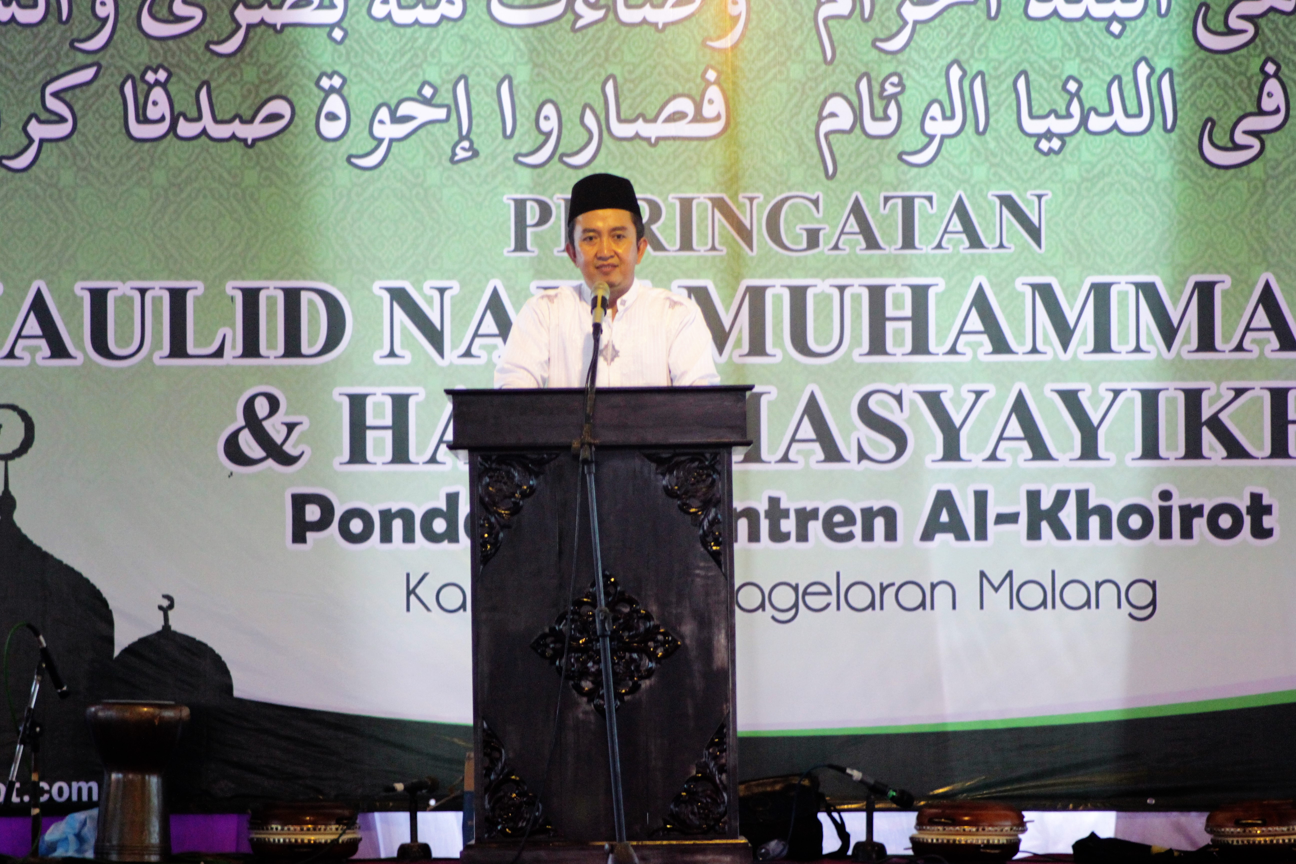 A Fatih Syuhud is an author of a dozen books on Islam and educations and director of Al Khoirot Institute of Islamic Studies Malang Indonesia